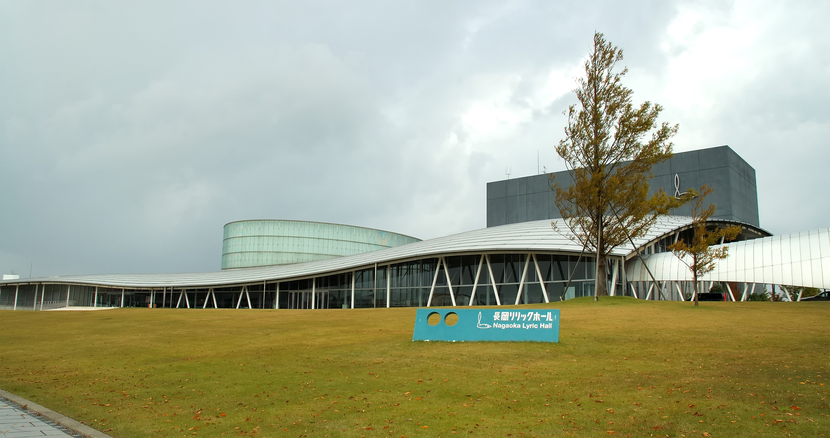 Nagaoka Lyric Hall, a concert hall in Nagaoka, Niigata Prefecture, Japan